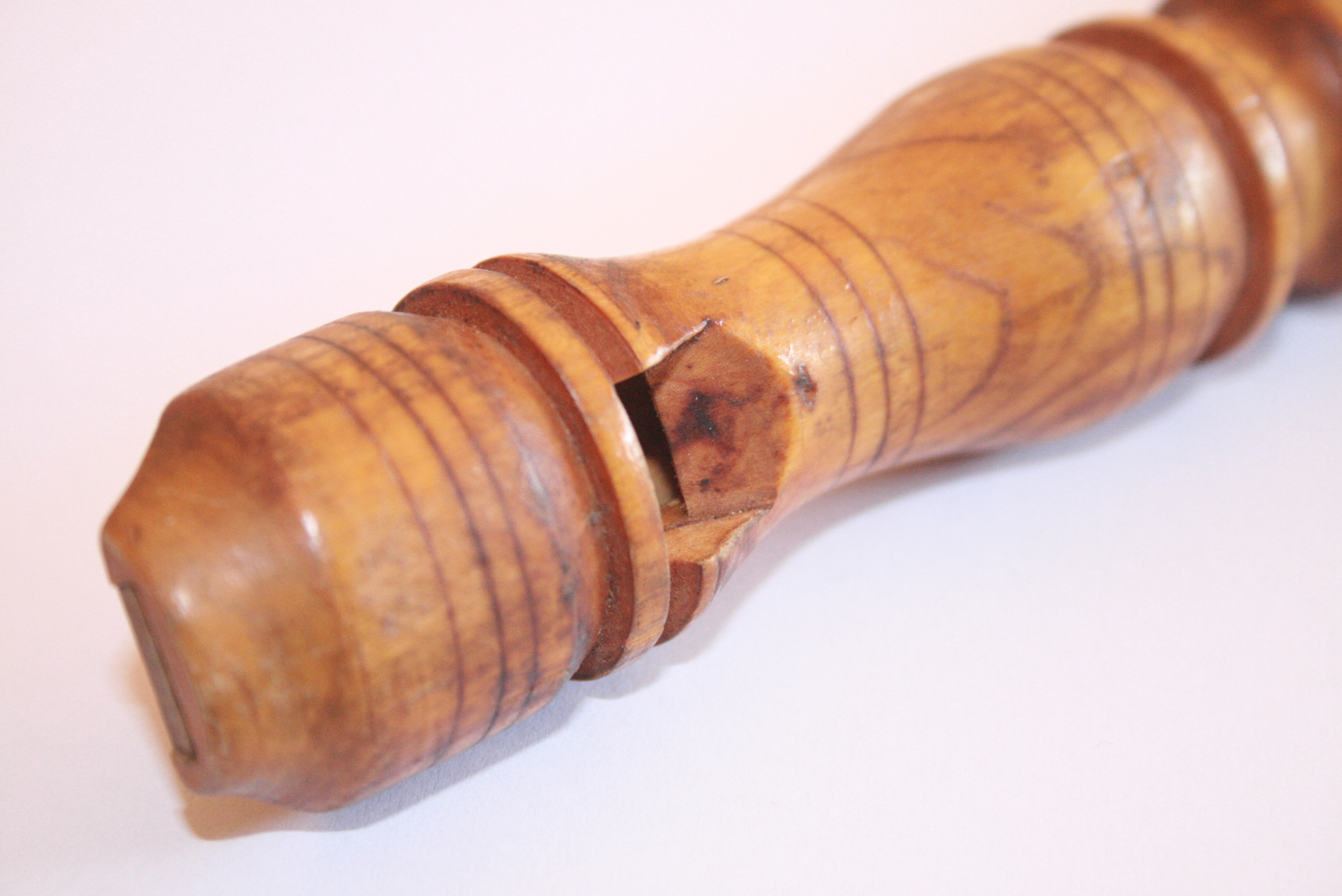 Details of the mouthpiece of a recorder of the county's traditional Maragatería